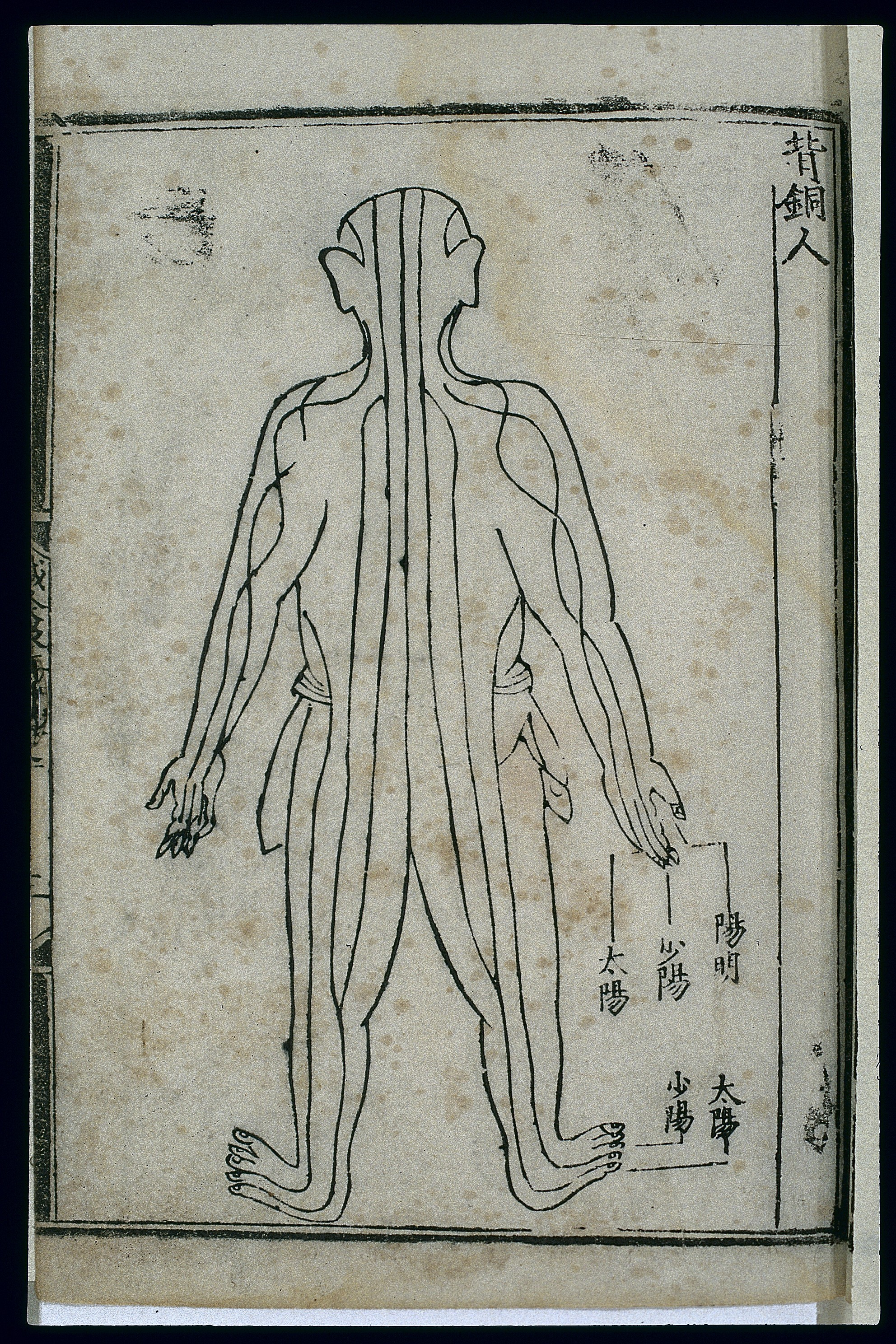 From an edition published in 1537 (16th year of the Jiajing reign period of the Ming dynasty). The image shows the standing acupuncture figurine (the 'Bronze Man'), from the back view, with five channels extending over the entire body, i.e. handyangming(Yang Brightness) channel; handshaoyang(Lesser Yang) channel; handtaiyang(Great Yang) channel; footshaoyang(Lesser Yang) channel; and foottaiyang(Great Yang) channel. Wellcome Images Keywords: Medicine, Chinese Traditional; Meridians; Ming period (1368-1644); Moxibustion; Channels; Bronze figure; Acupuncture; Bronze man